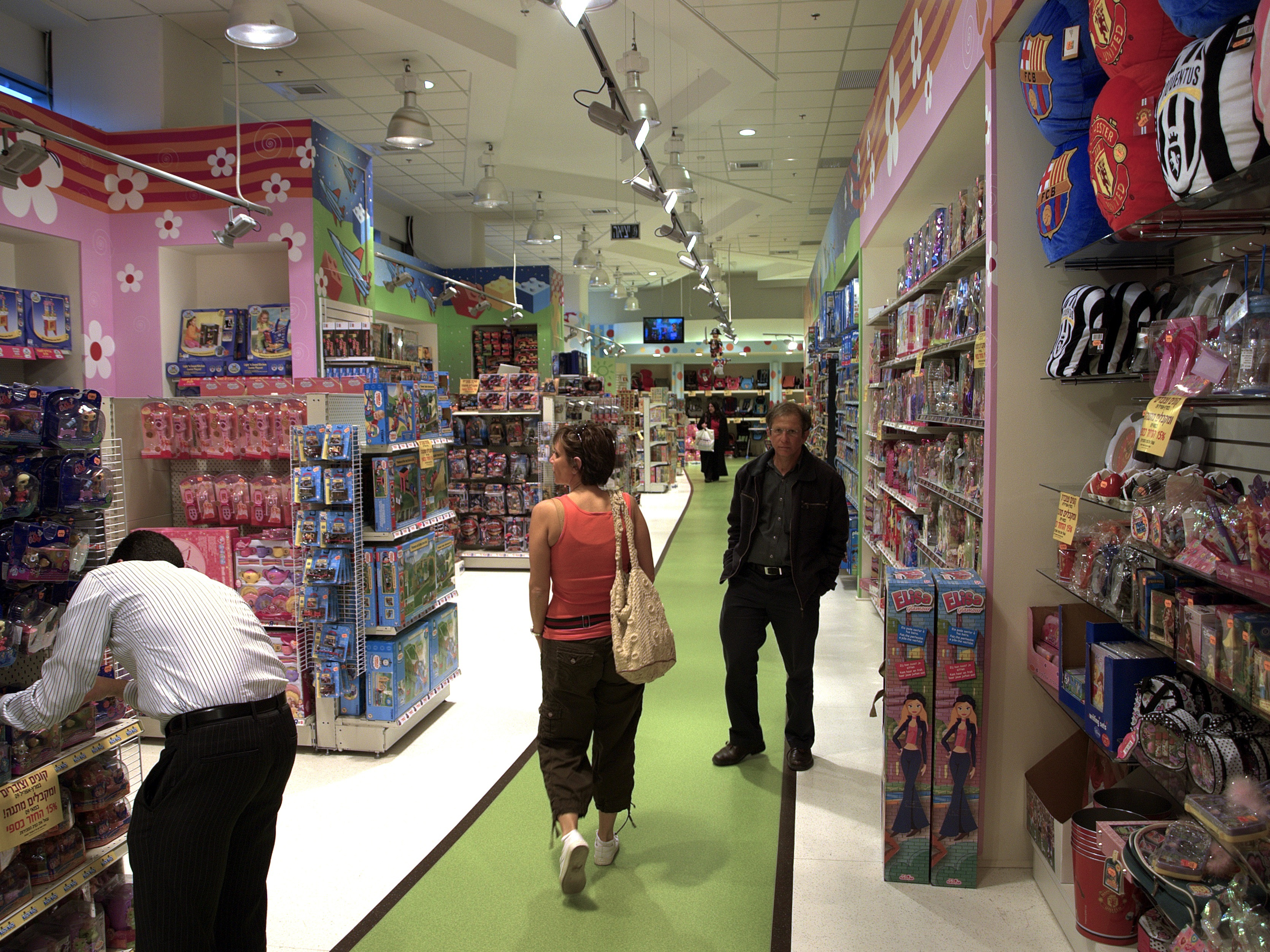 Toys R' Us store in Tel Aviv, Israel.